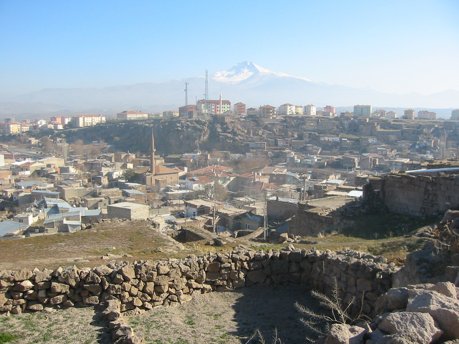 in front old town of Incesu, in the middle new town and in the background Mount Erciyes